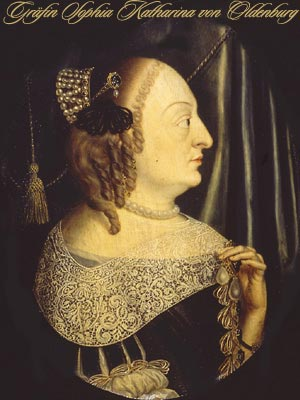 Princess Sophia Catherina of Schleswig-Holstein-Sonderburg (1617-1696), the Countess of Oldenburg as the wife of Anton Günther, Count of Oldenburg